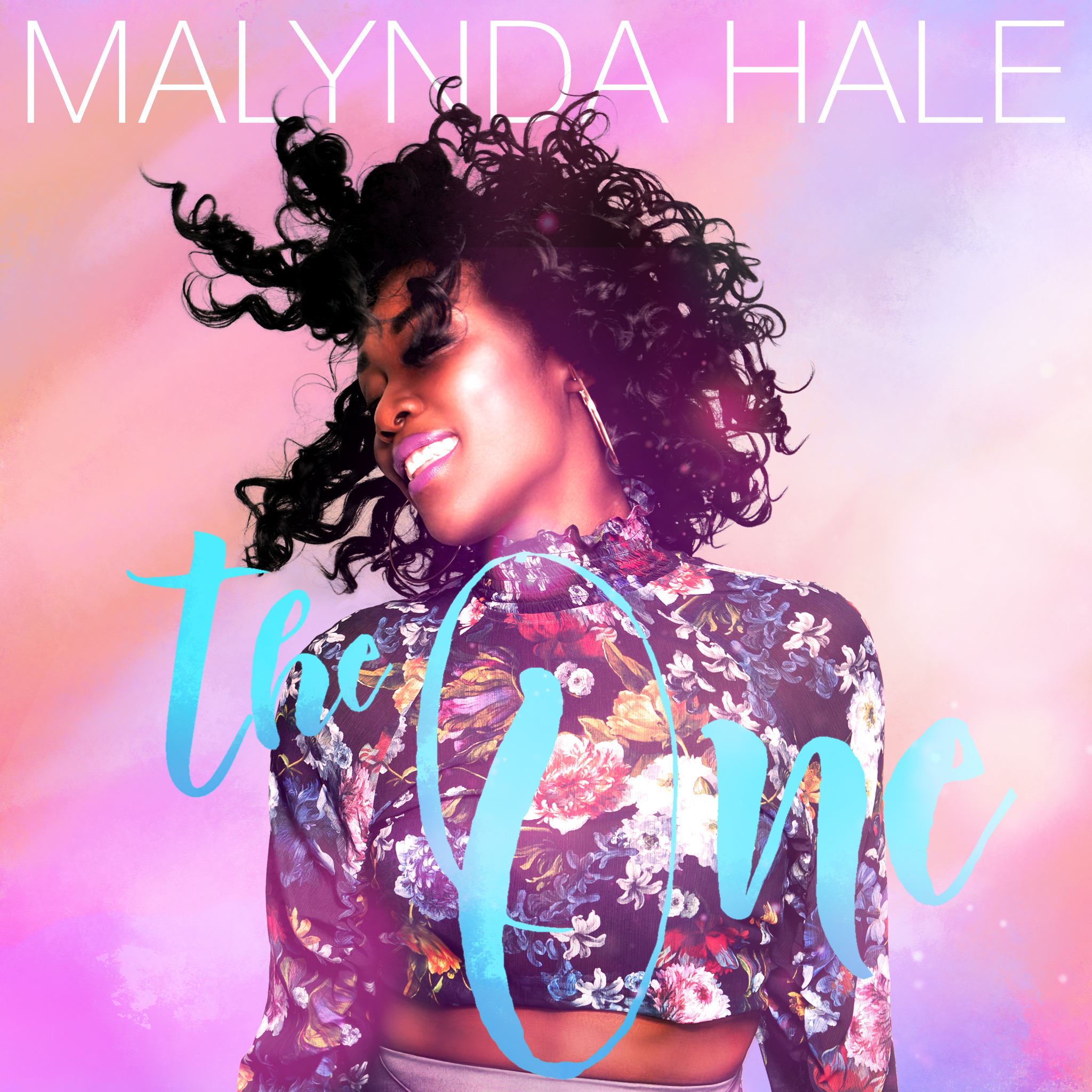 The One EP Cover